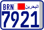 License plate for small motorcycles from Bahrain